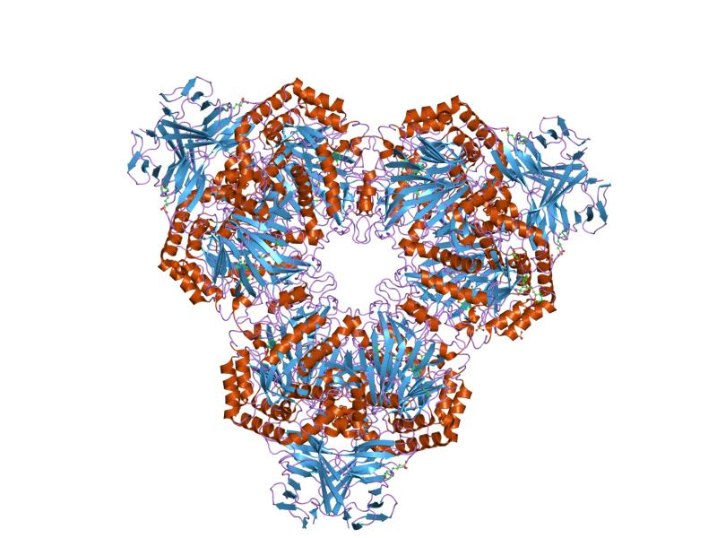 Cartoon representation of the molecular structure of protein registered with 2f2h code.